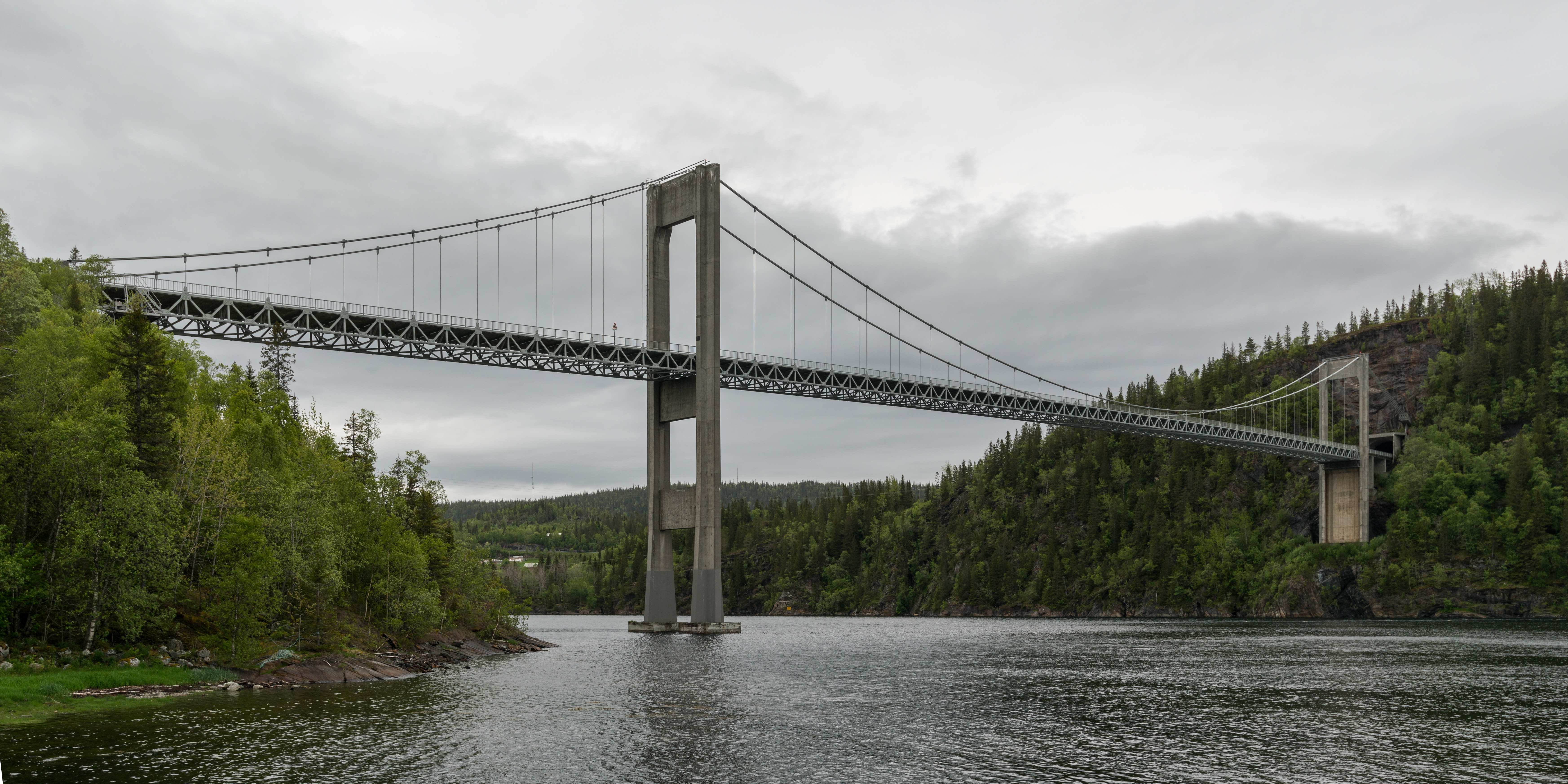 A south view of Folda Bru